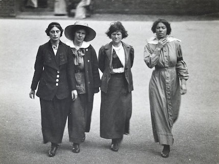 Margaret Scott, Jane Short, May McFarlane & Olive Hockin, suffragettes in Holloway prison being covertly photographed for later identification after release